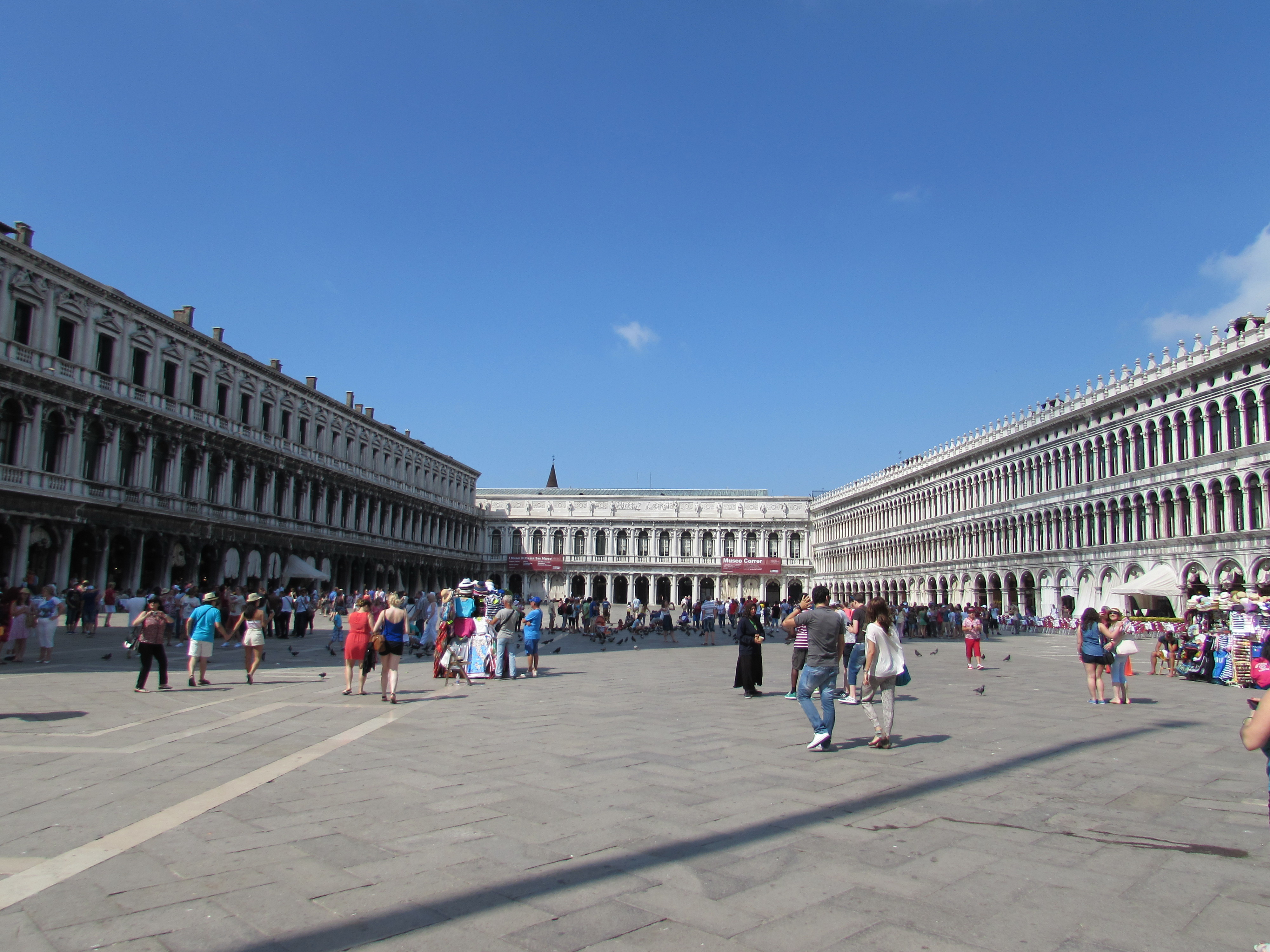 Piazza San Marco (Venice)